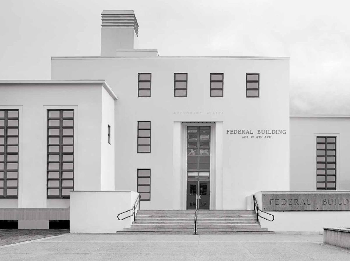 The U.S. Federal Building in Anchorage, Alaska. The Federal courthouse is on the National Register of Historic Places.